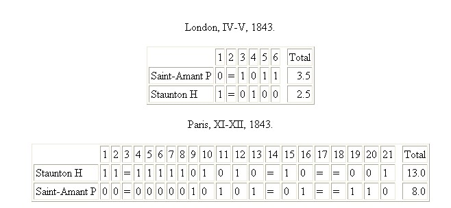 World_Chess_Championship_1843_Staunton_-_Saint-Amant_Matches